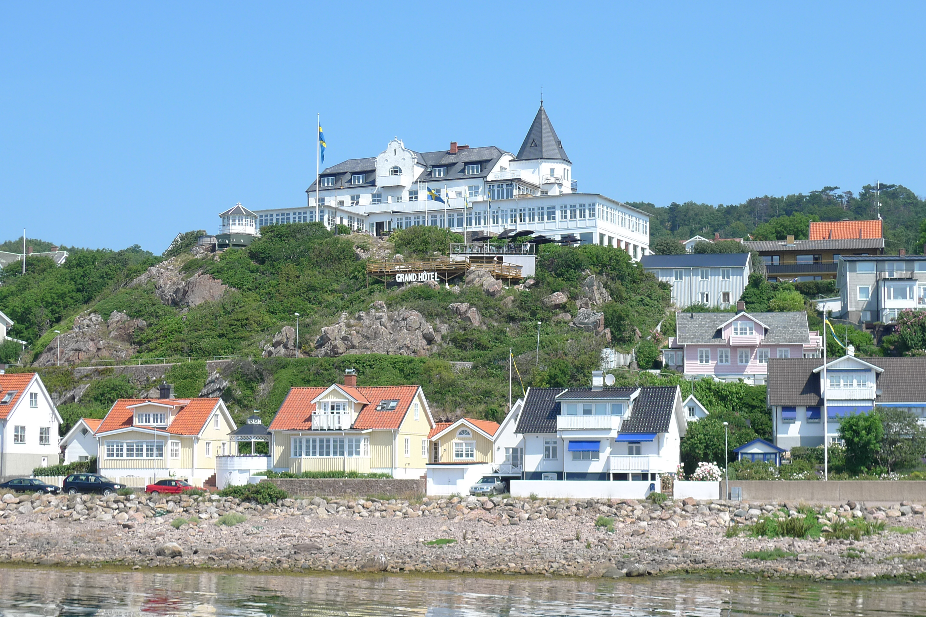 Grand Hotel, Mölle, Sweden